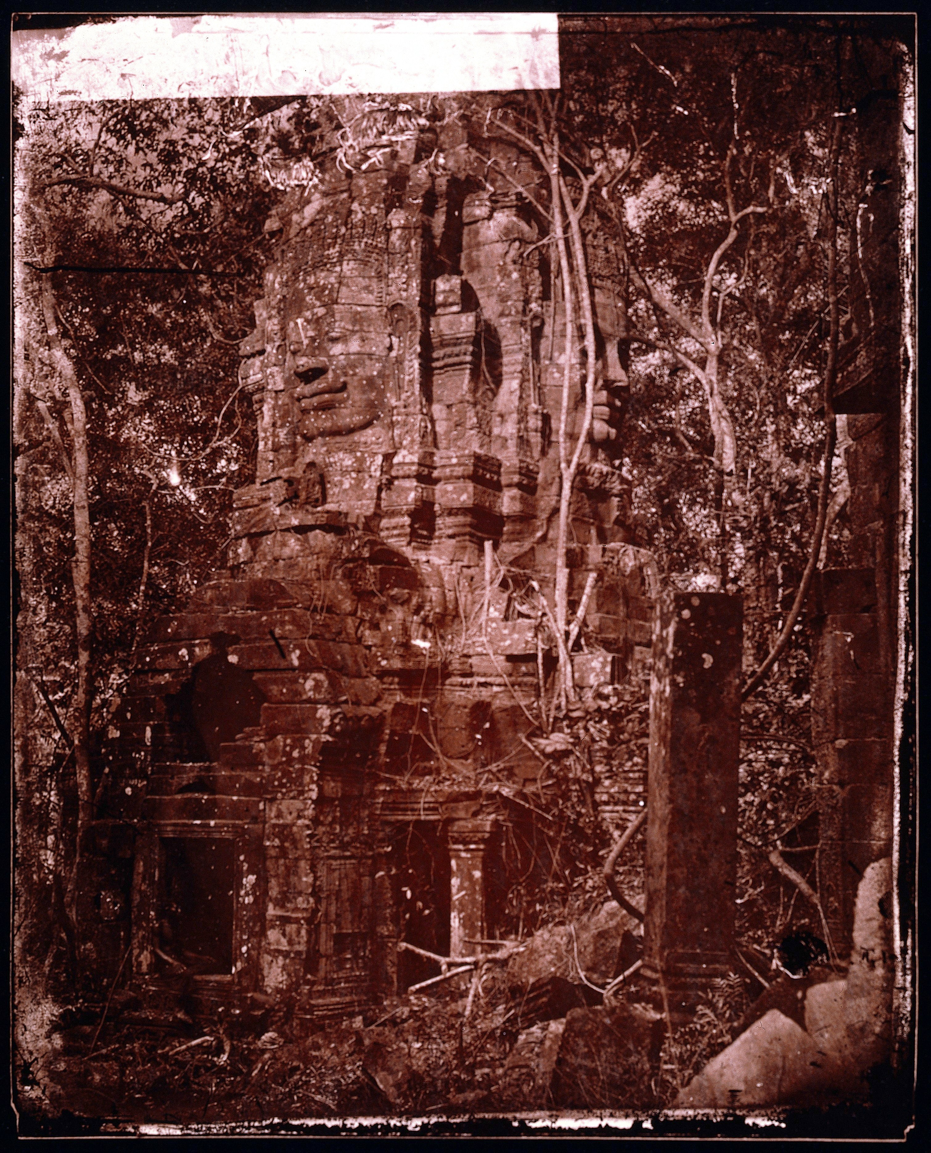 Prea Sat Ling Poun, Angkor Wat, 1865. In the public domain. Source [1]